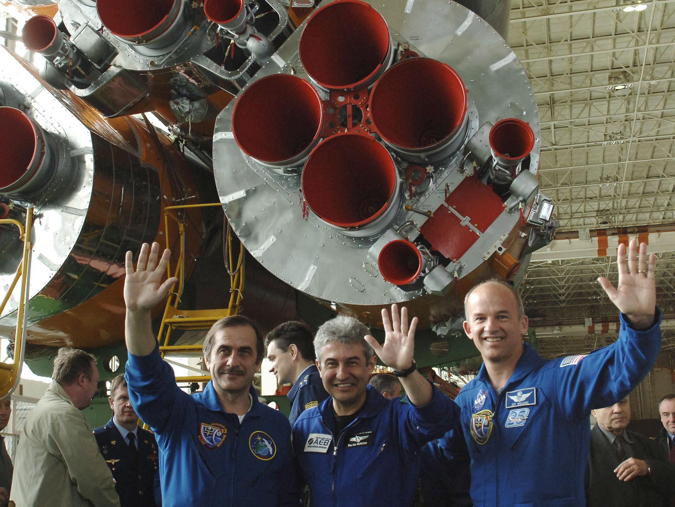 Expedition 13 Commander Pavel Vinogradov, Brazilian astronaut Marcos Pontes, and Expedition 13 Flight Engineer Jeff Williams, pose for the media during a tour of the Soyuz assembly building at the Baikonur Cosmodrome in Kazakhstan. The Soyuz rocket will launch the trio to the International Space Station on Wednesday, March 29. Vinogradov and Williams will begin a six-month stay on the orbital outpost, replacing the Expedition 12 crew -- Commander Bill McArthur and Flight Engineer Valery Tokarev. Pontes will spend eight days on the station before returning with McArthur and Tokarev.